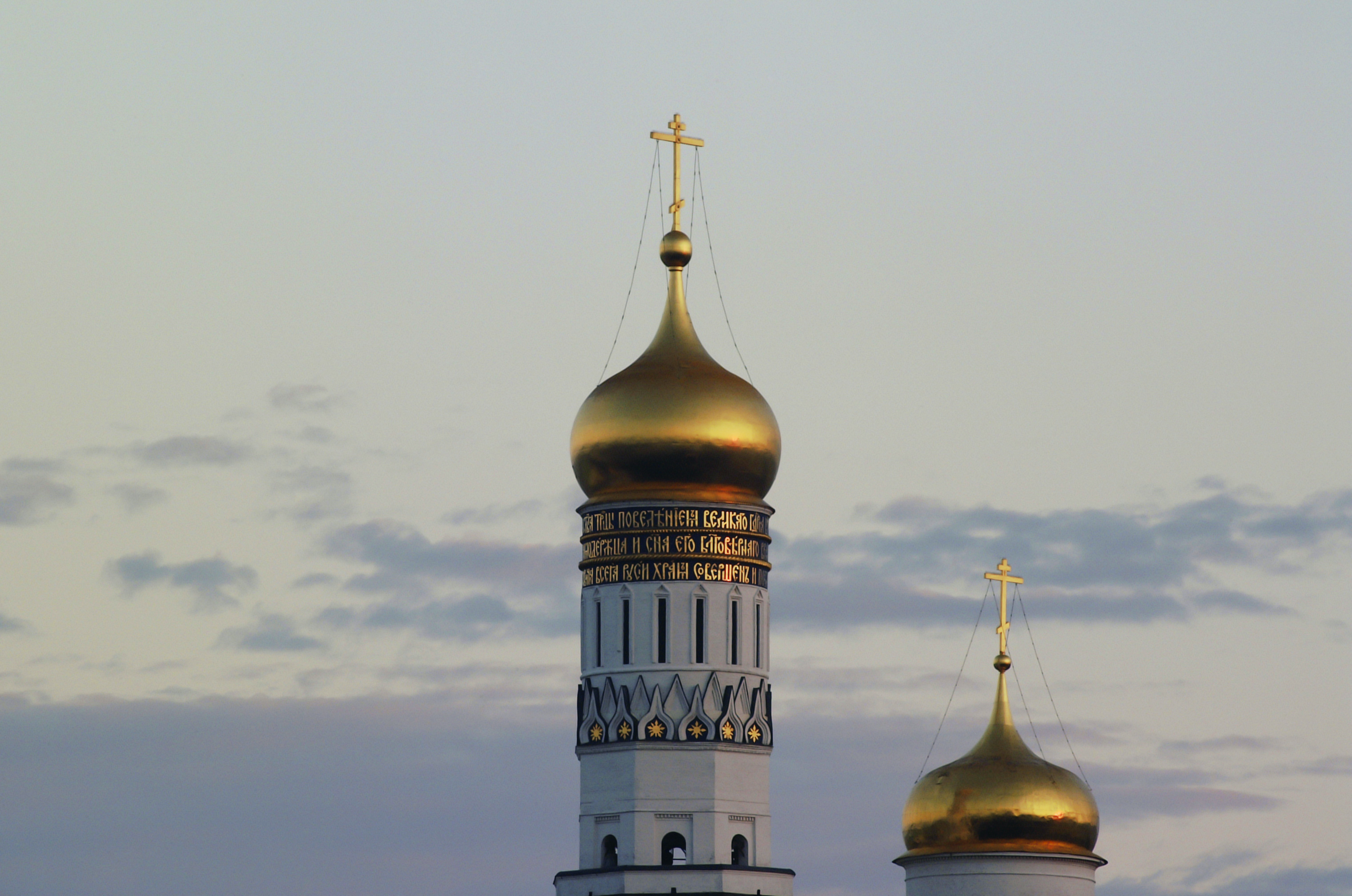 Domes of the Ivan the Great Bell Tower in Moscow, Russia.